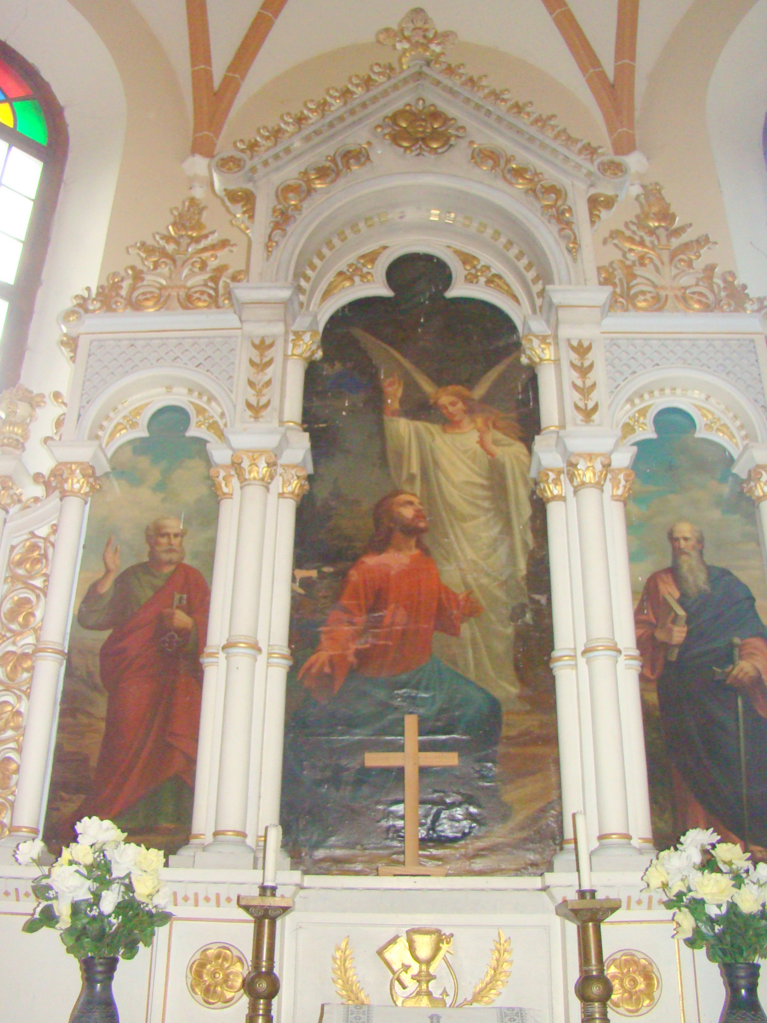 Lutheran church in Lovnic, Brașov County, Romania